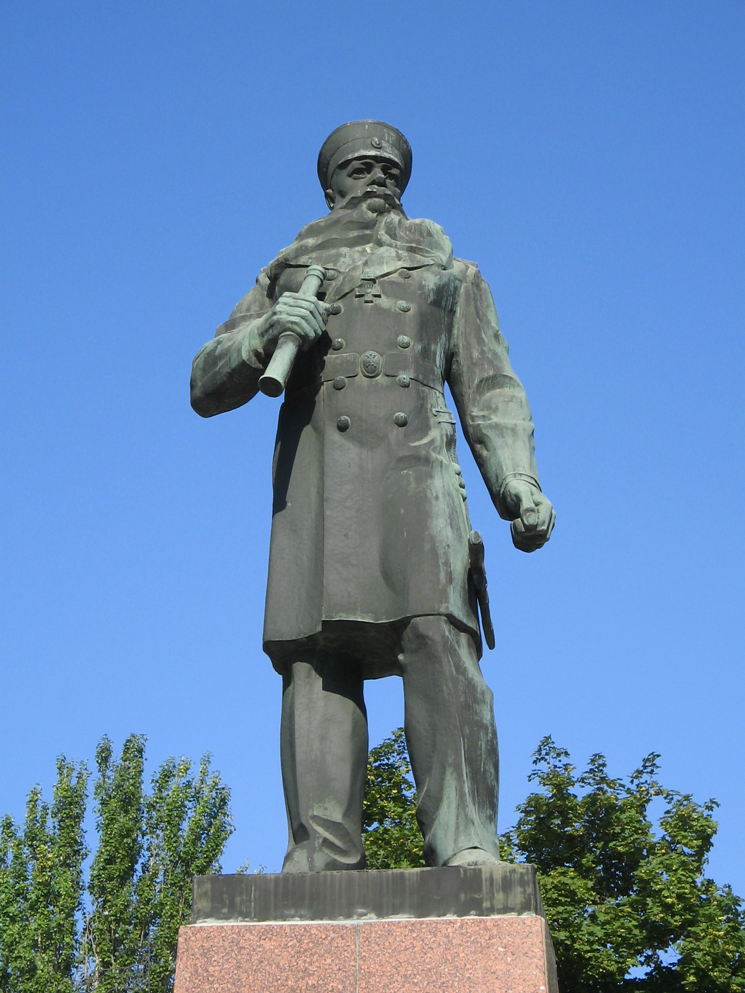 Памятник Макарову (Николаев)